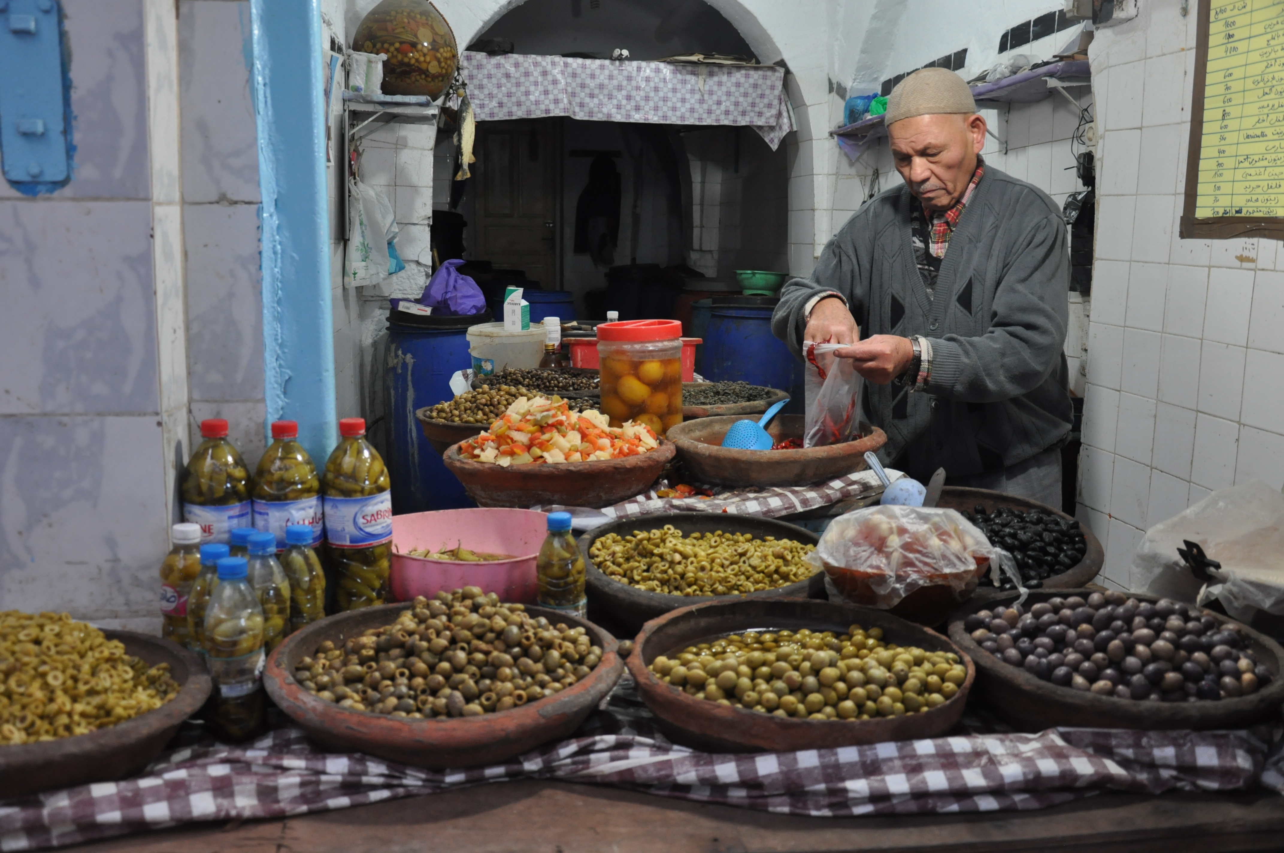 au souk de sousse This is an image of "African people at work" from Tunisia